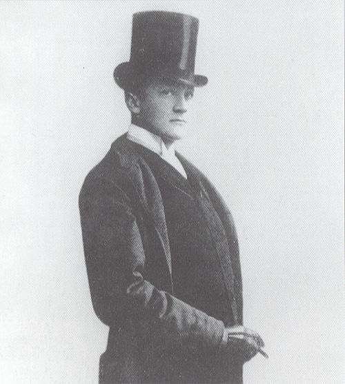 Picture of Norwegian painter Kalle Løchen, born 1865, died 1893